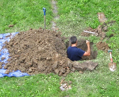 Privy digger probing the walls of a barren wood-lined vault (ca. 1840s).